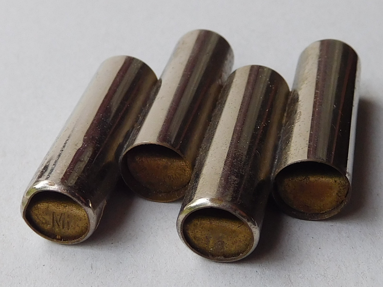 Set of four pitch pipes for violin.